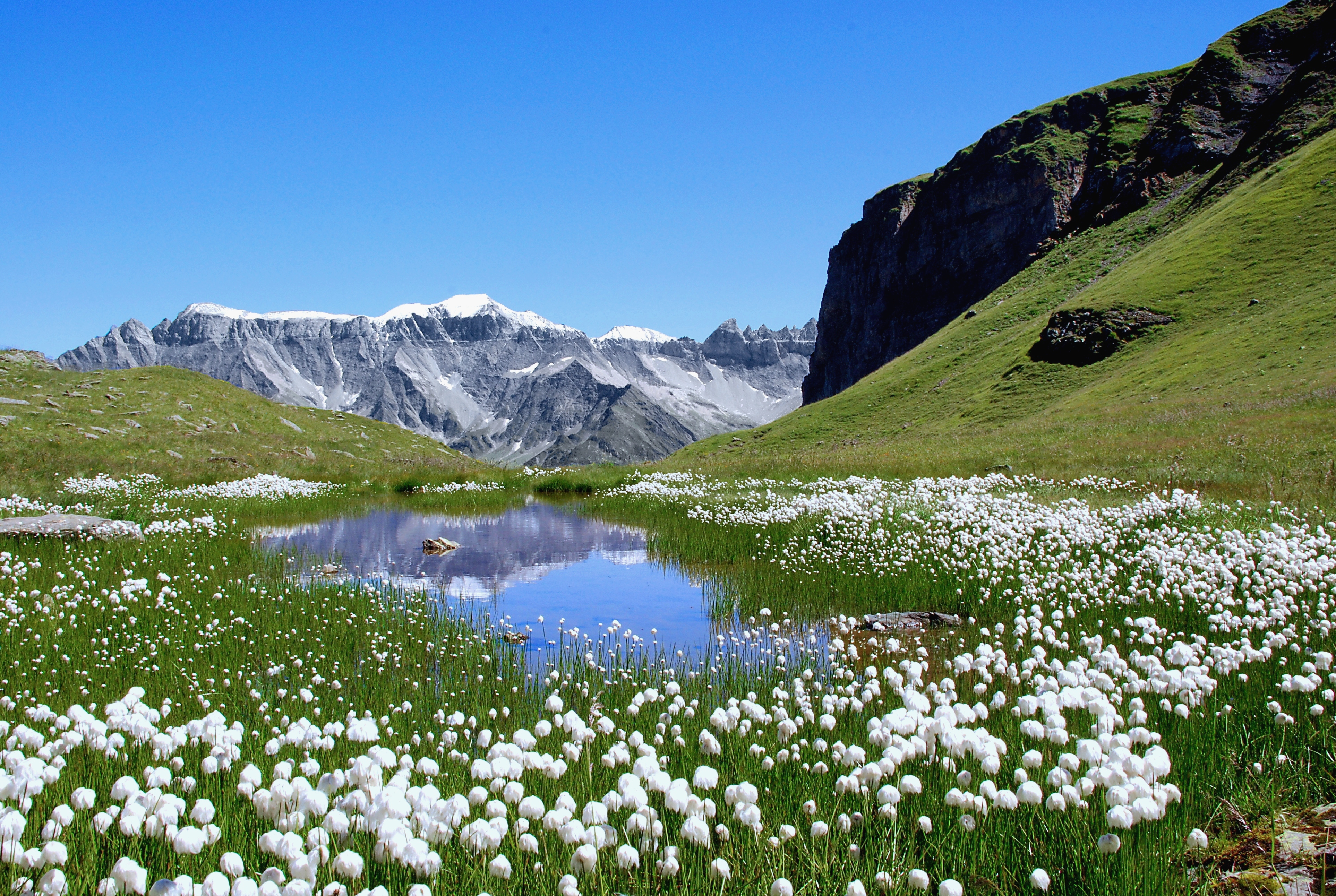 The outflow of the Chüebodensee close to Elm, Kanton Glarus. The niveous mountain is the Piz Sardona (3056m) and the peaks on the right, just before the rock spur blocks the sight are the Tschingelhoren (2849 m).